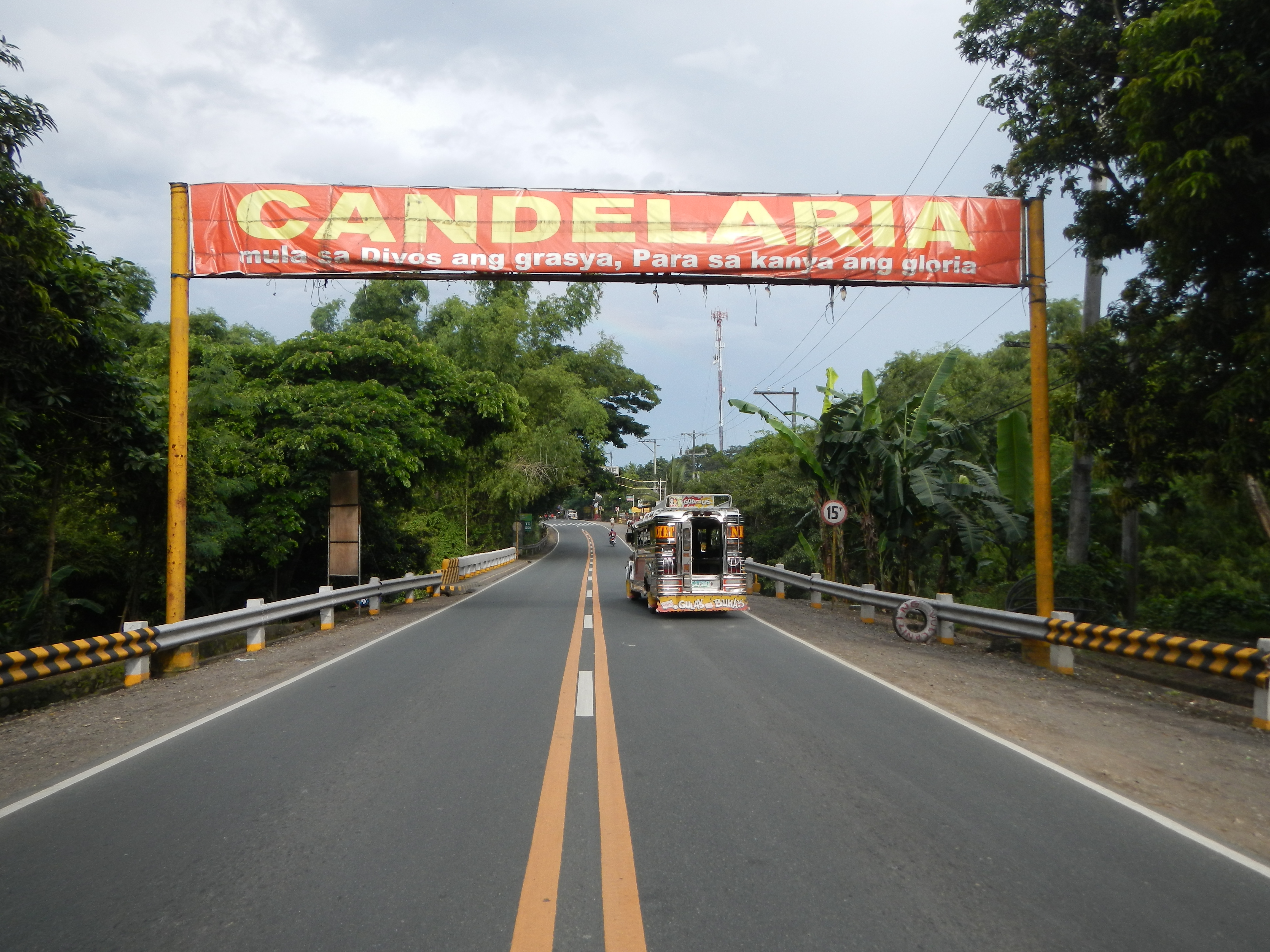 HIghway Boundary MSR Candelaria Section Km 102 + 462 - Km 111 + 048 & Taguan Bridge, Km 102 + 450[1] Coordinates: 13°55'54"N 121°23'40"E & River Pan-Philippine Highway Barangay Bukal Sur, Bridge and River --- Candelaria, Quezon [2] The Municipality of Candelaria (Filipino: Bayan ng Candelaria) is a first class municipality in the province of Quezon[3], Philippines - 2010 census, it has a population of 110,570 traversed by the Maharlika Highway with a total area of 175 km².Website [4] Geographical location: Quezon, Region 4, Philippines, Asia Geographical coordinates: 13° 55' 52" North, 121° 25' 24" East This place is situated in Quezon, Region 4, Philippines, its geographical coordinates are 13° 55' 52" North, 121° 25' 24" East and its original name (with diacritics) is Candelaria.